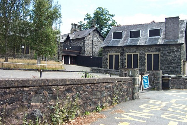 Llanrwst Grammar School. The old Llanrwst Grammar School at SH 80135 61763 is now boarded up and the building is no longer in use.